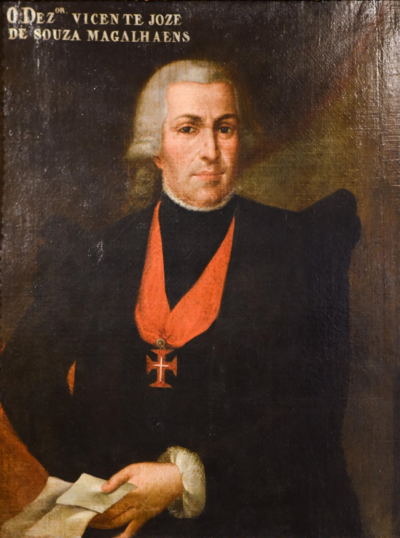 Portrait of Judge Vicente José de Sousa Magalhães (?-1785), by João Glama Ströberle